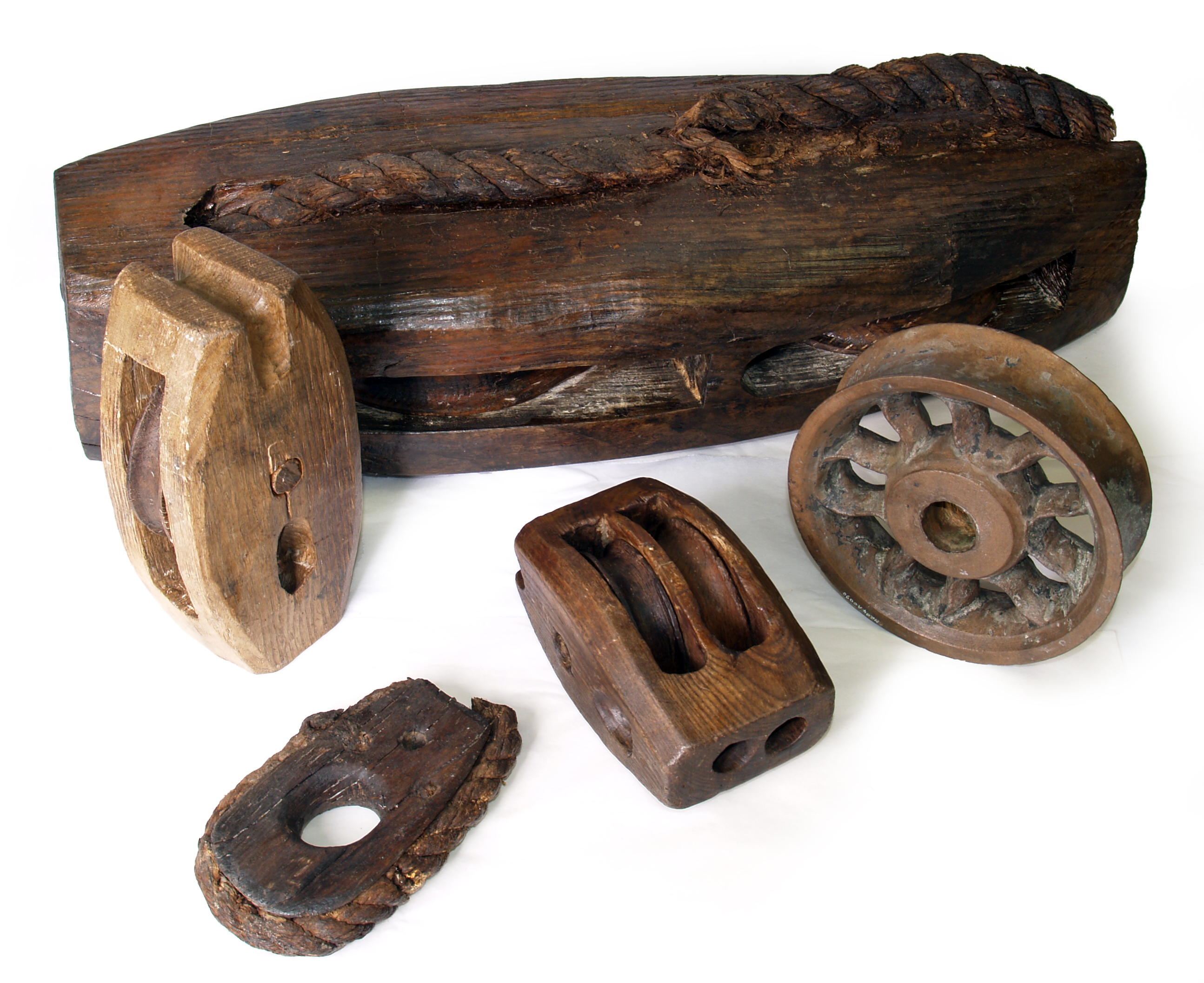 Rigging blocks found on board the carrack Mary Rose.